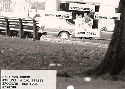 Surveillance photo of Mafia leaders John Gotti, Sammy Gravano, Victor Amuso and Anthony Casso.